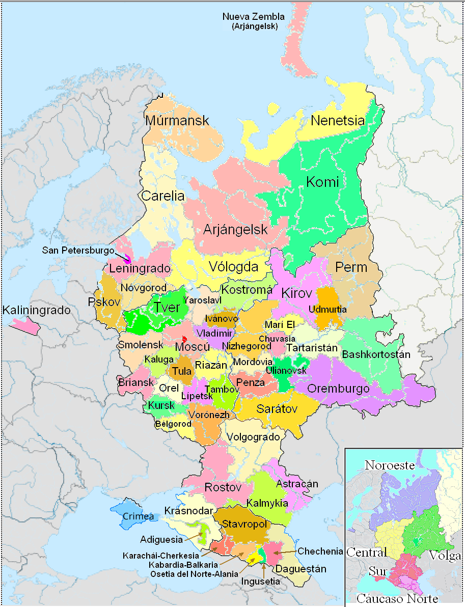 European Russia